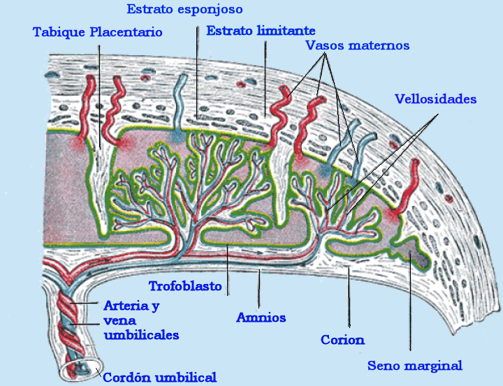 Scheme of placental circulation.